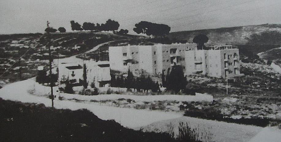 Beit Kadima, Jerusalem 1945. In 1947 hosted the UNSCOP Commission.